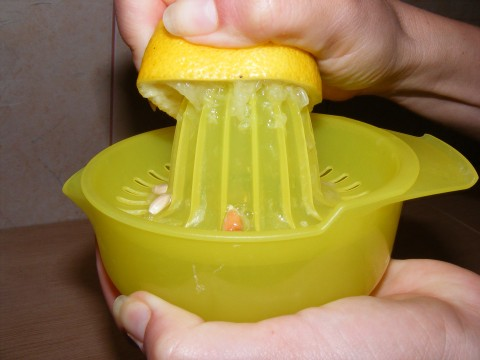 Free Photos – Lemon Squeezer More photos and details about possible copyright or licensing restrictions here: Full Size Up to 3072 x 2304 pixels Information Regarding Copyright